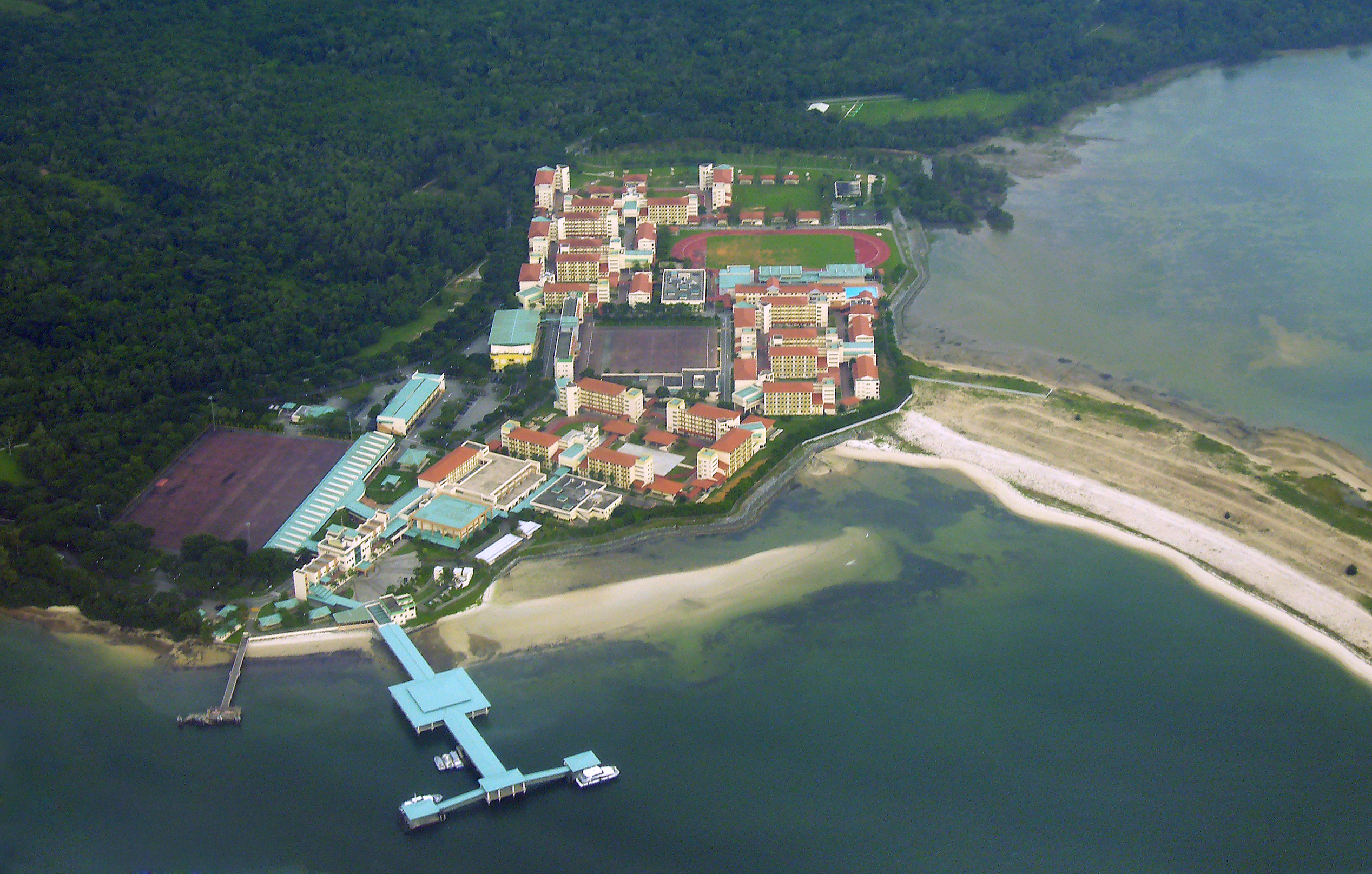 Aerial view of the Basic Military Training Centre (BMTC) at Pulau Tekong, Singapore, photographed from a Cathay Pacific Boeing 777 aircraft.